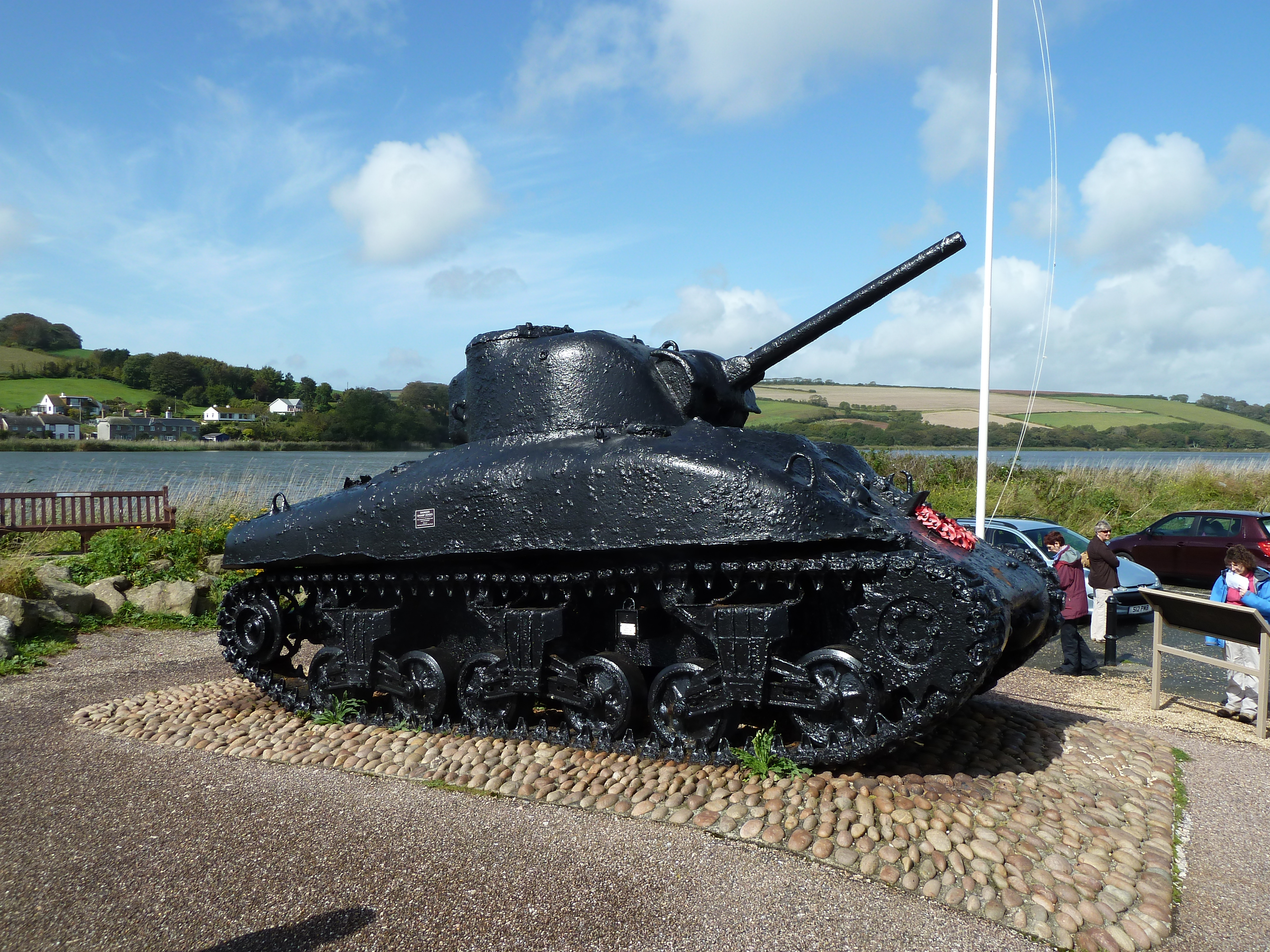 M4 Sherman Tank memorial at Torcross Devon